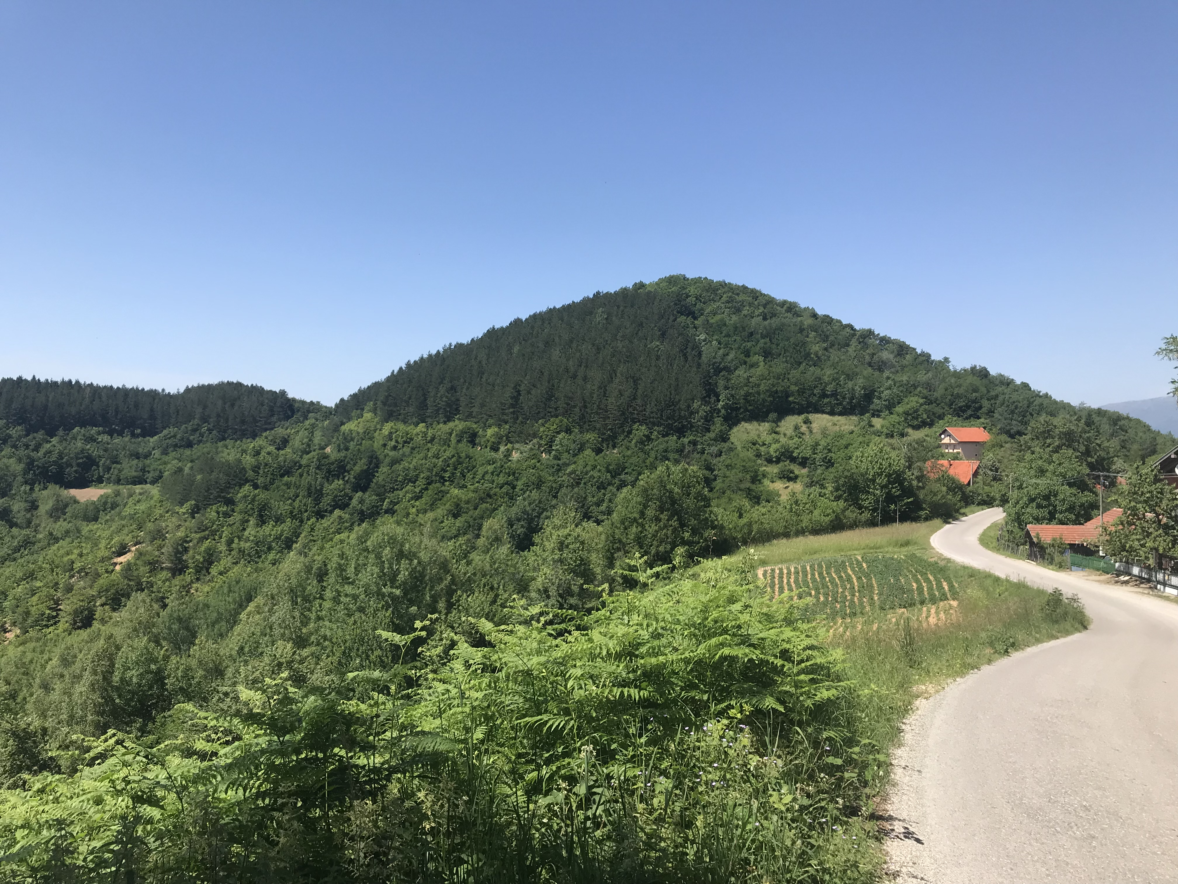 Morič hill. Srpski (latinica): Brdo Morič iznad Donje Lopušnje kod Vlasotinca.